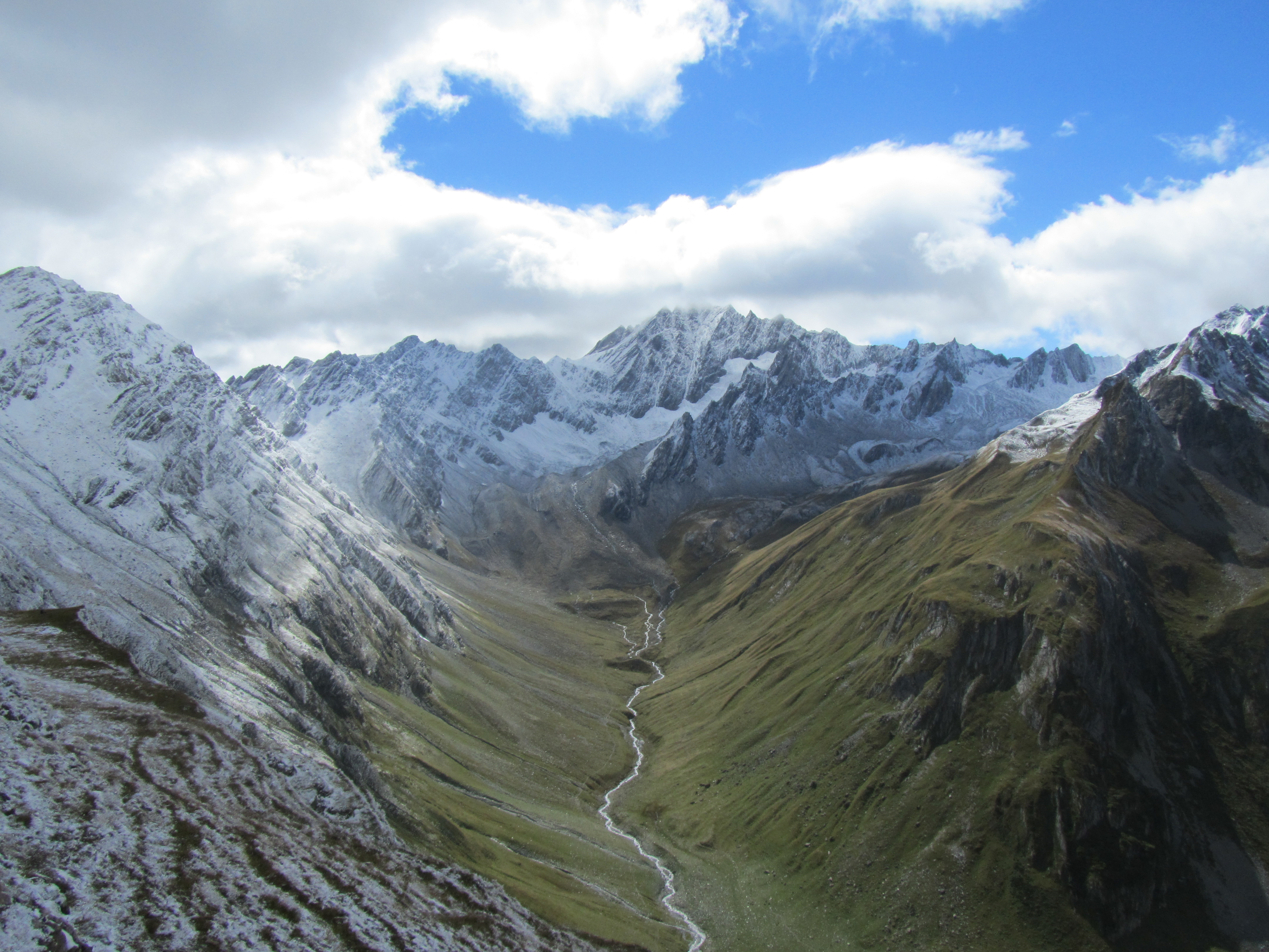 View from Lac de fenêtre towards the Grand Goliath